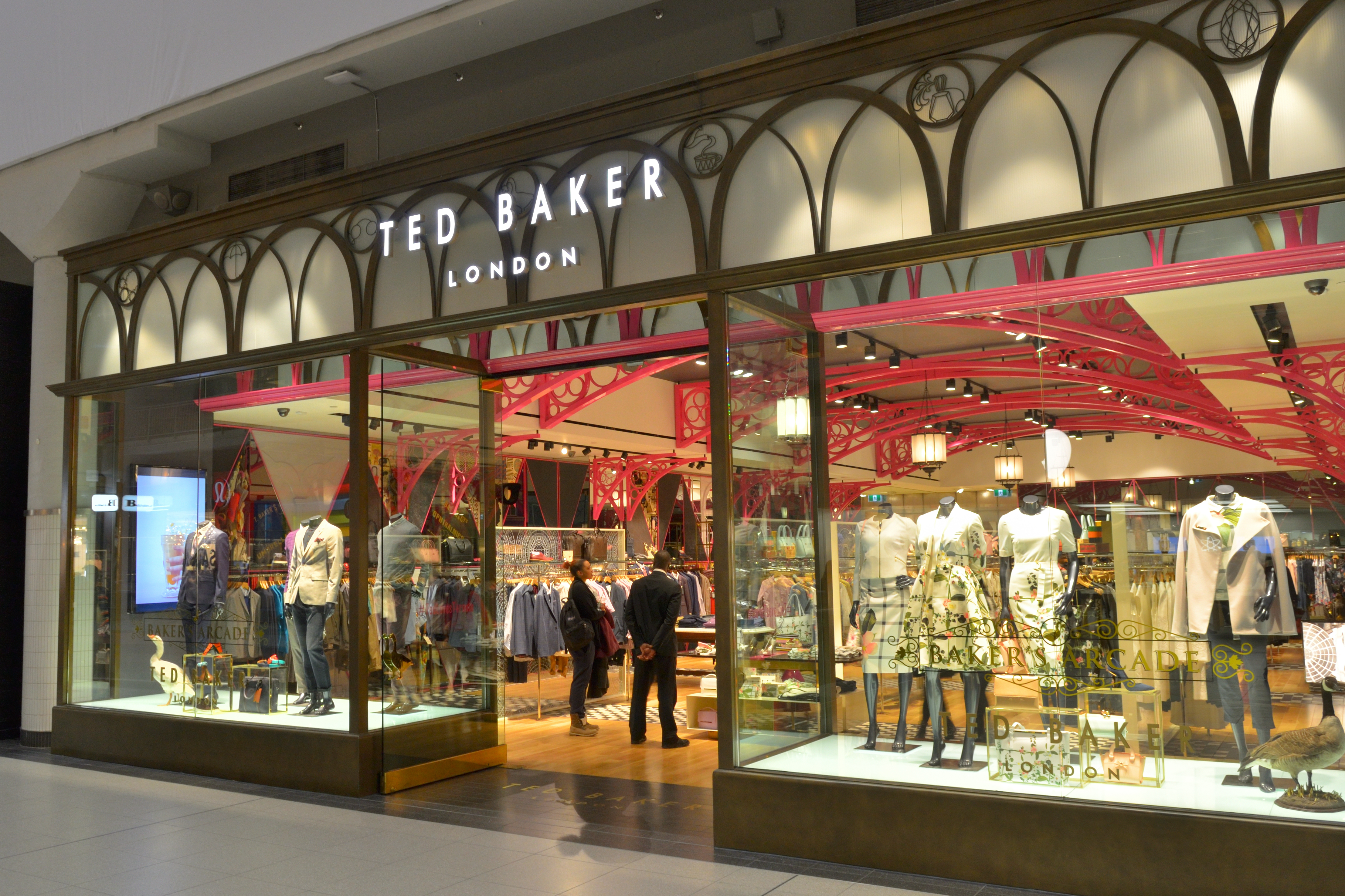 Ted Baker at Eaton Centre.